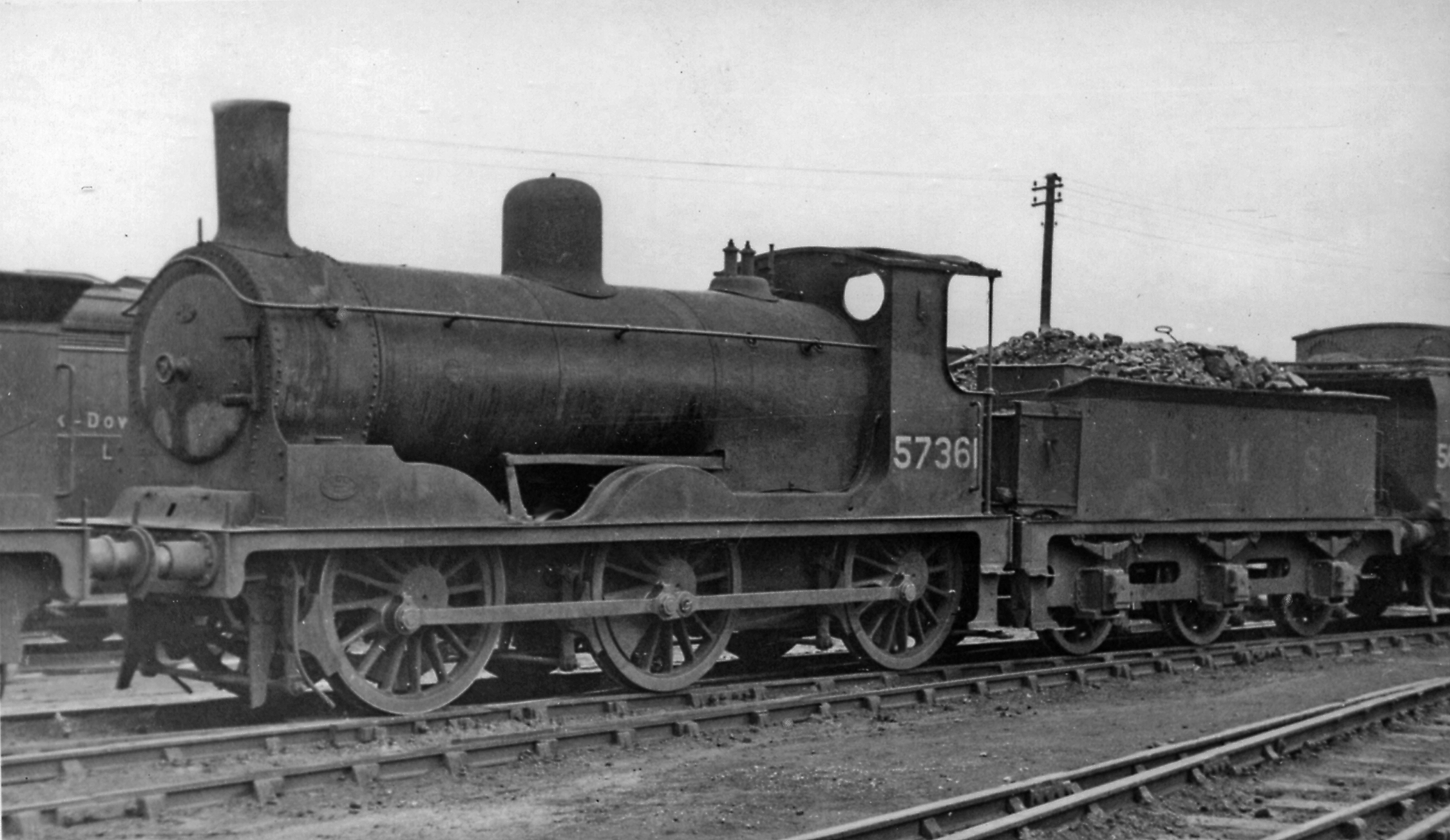 Ex-Caledonian 'Jumbo' 2F 0-6-0 at Polmadie Depot. No. 57361 (built c. 1890, withdrawn 12/59) is one of the numerous Drummond 'Jumbos', of which Glasgow Polmadie Depot alone had about 35 in those days. Most of them had that 'stove-pipe' chimney.